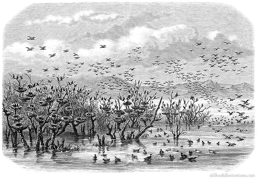 Lake Fetzara is located about 15 miles (25 km) south-west of Annaba, in Algeria. In 1857 it was still one of the most important freswater lakes of northen Africa, where a great number and variety of waterbirds came to breed. As soon as 1877 however, it was suspected by the Mokta El Hadid mine company to be the cause for malaria in the area. The lake was subsequently drained, and the site remained dry for long periods of time, losing a lot of its ornithological value. These draining works uncovered traces of roman settlement. Retaining winter floods in recent years has allowed Lake Fetzara to regain some of its importance as a nesting site.